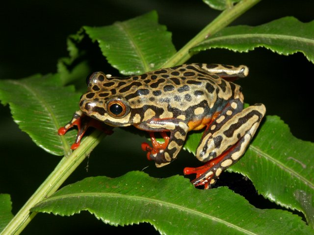 Hyperolius riggenbachi hieroglyphicus